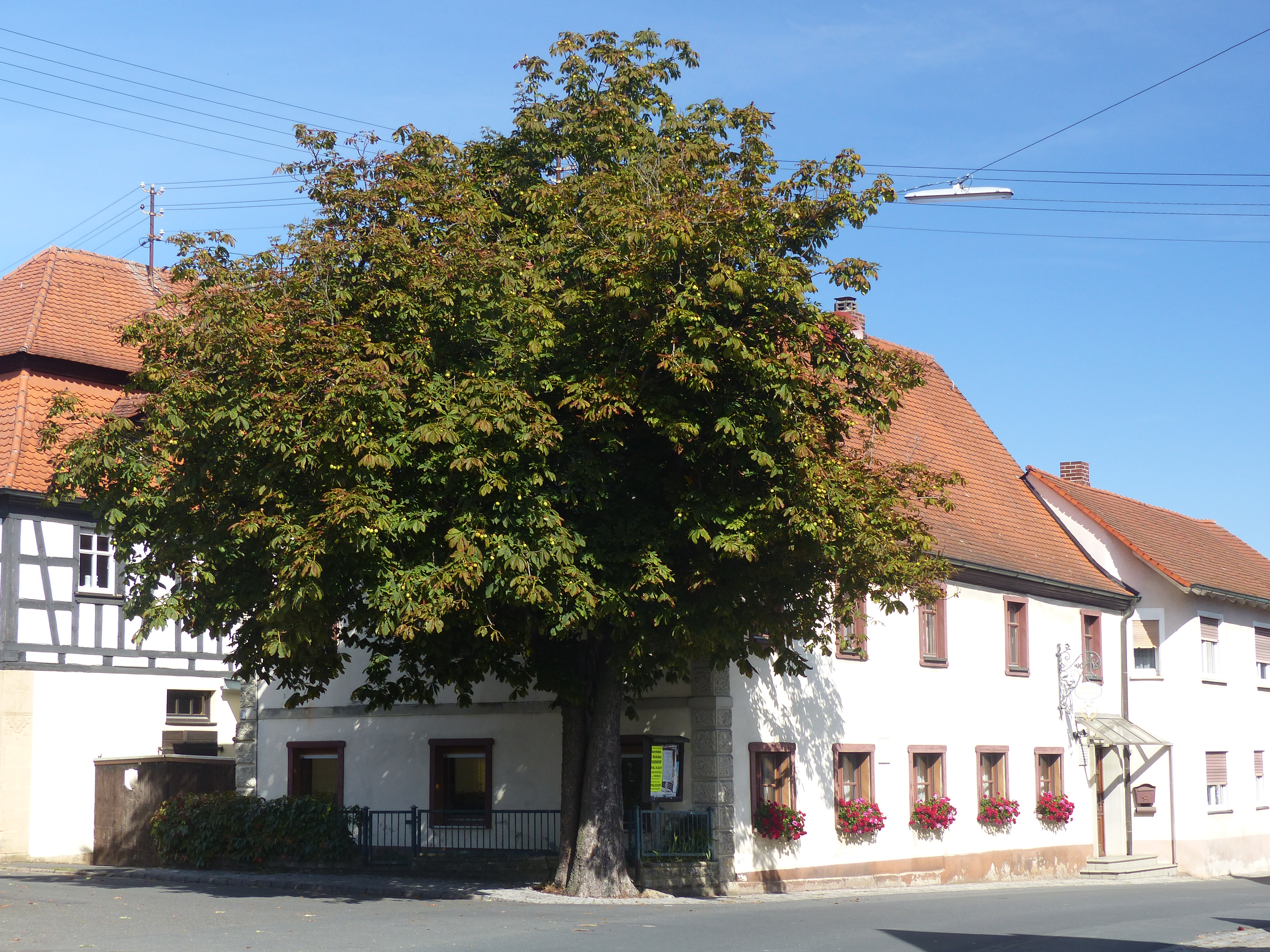 An inn in the church village Schlammersdorf, a district of the municipality of Hallerndorf.